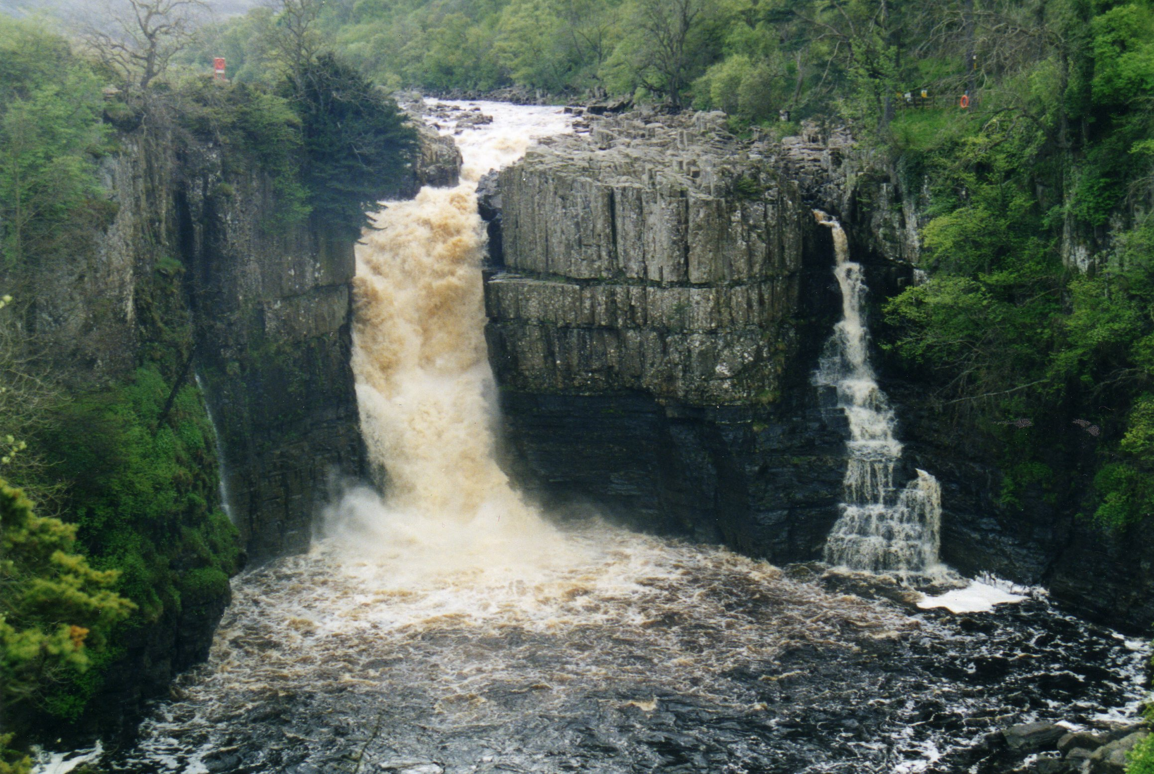 High Force from the Pennine Way